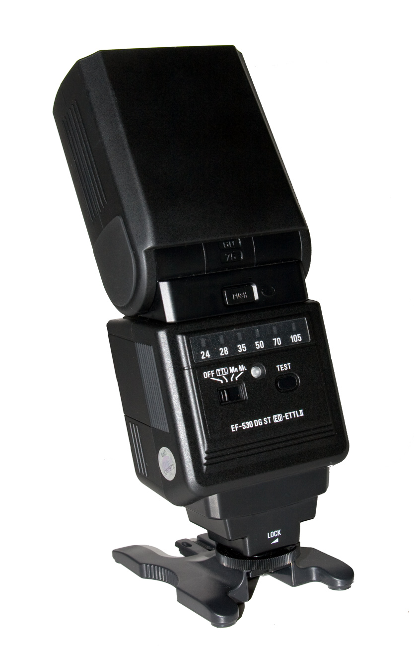 Sigma EF-530 DG ST electronic flash (for Canon E-TTL II)